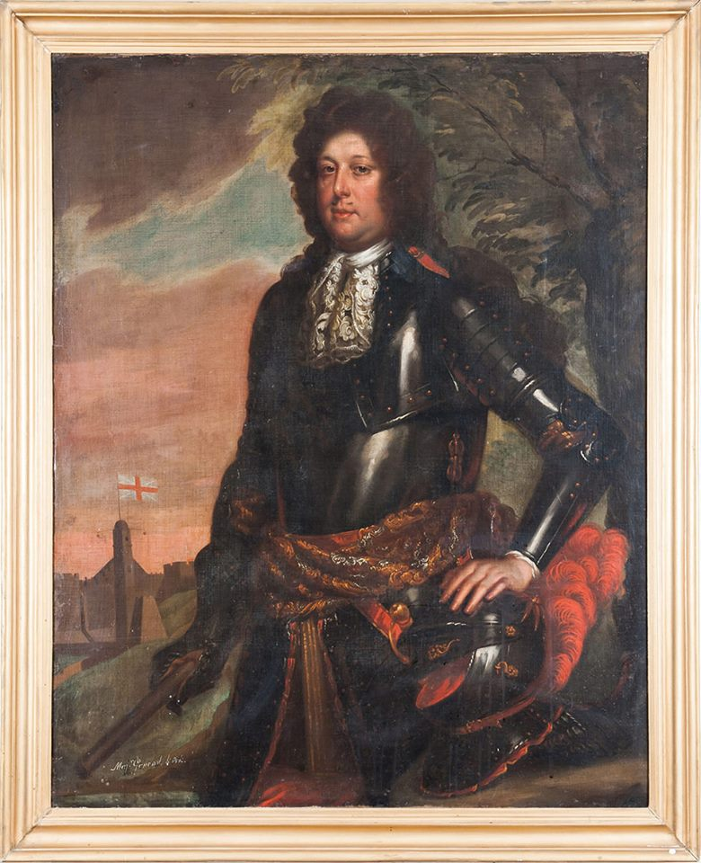 Image of Percy Kirke about 1680